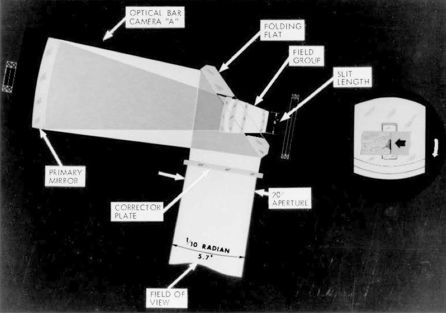 Optical Path of the KH-9 HEXAGON main camera system (folded Wirght design or modified Schmidt camera)